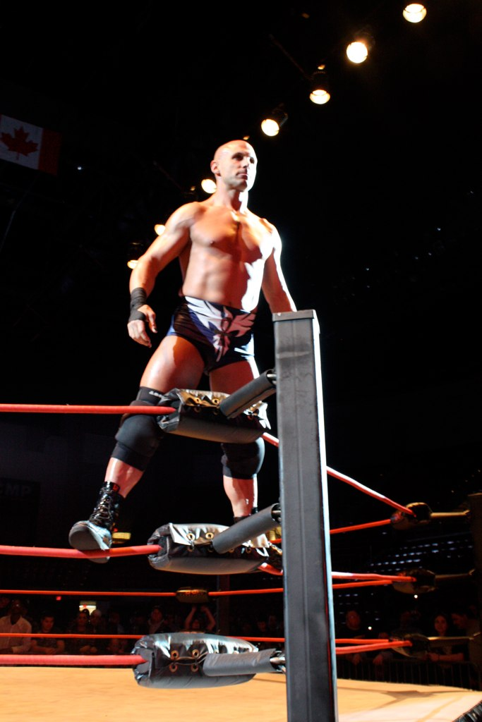 the wrestler daniels